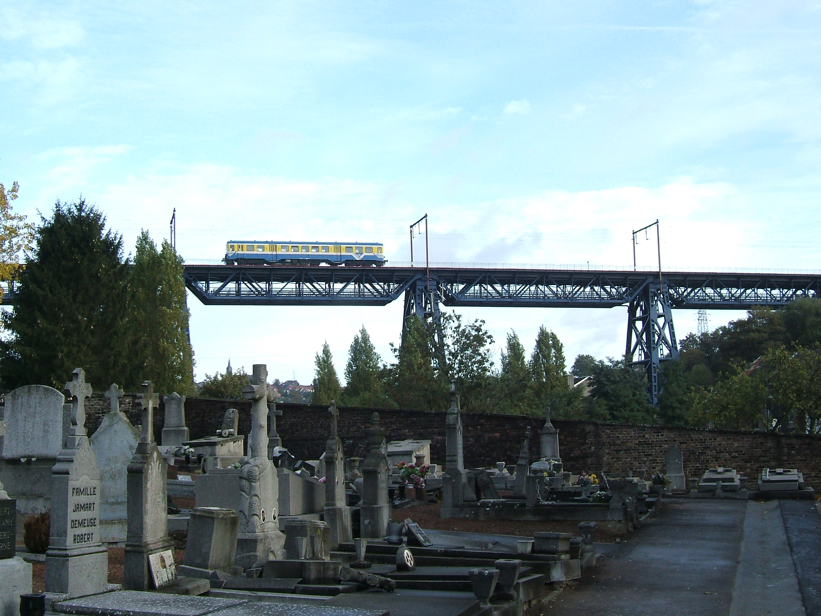 Class 44 DMU on Horloz viaduct over Tilleur cemetery